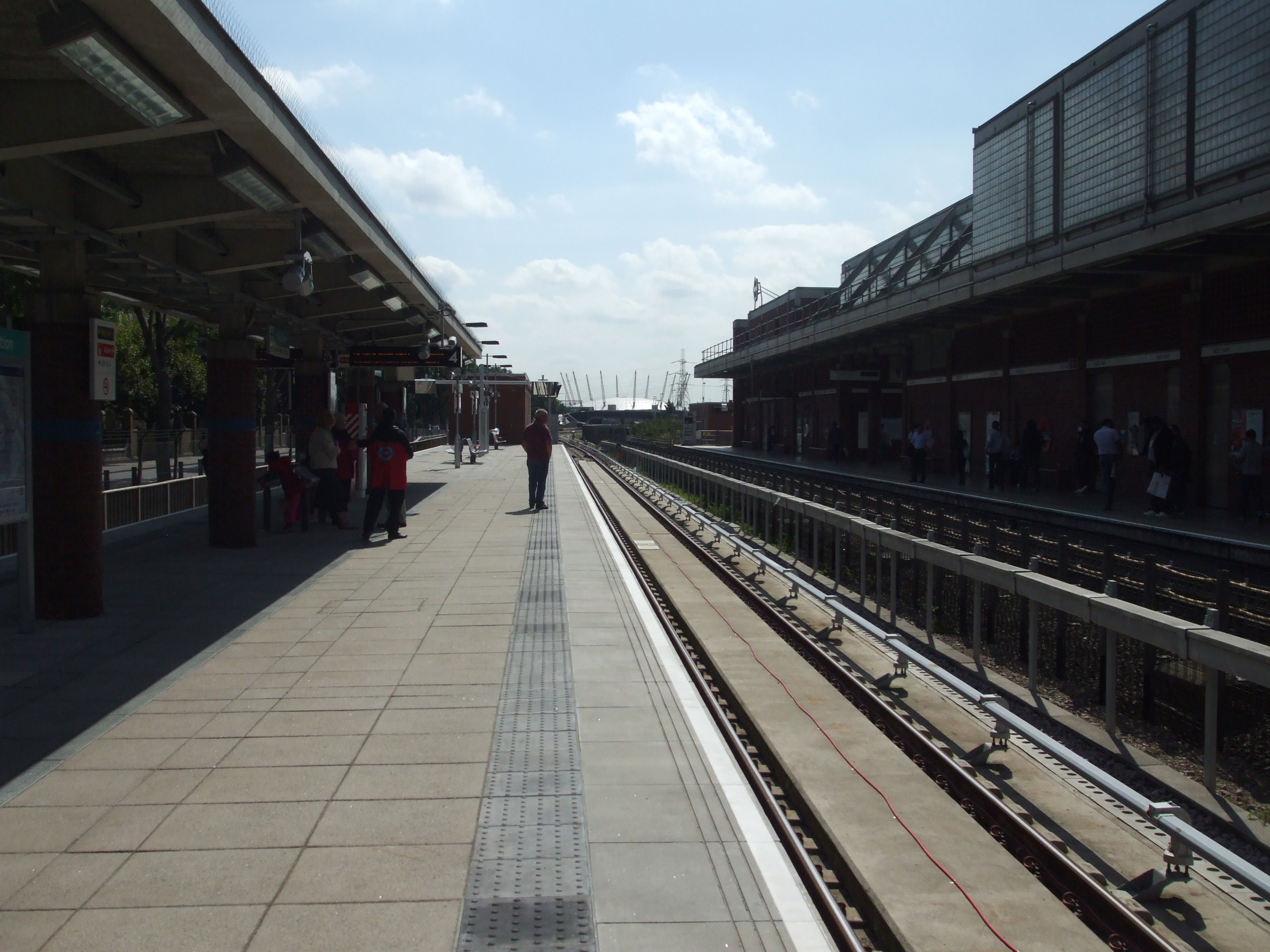 West Ham station northbound DLR platform looking south, soon after opening. The platforms until 2006 were served by the North London Line On the far right are the Jubilee platforms, opened in 1999..